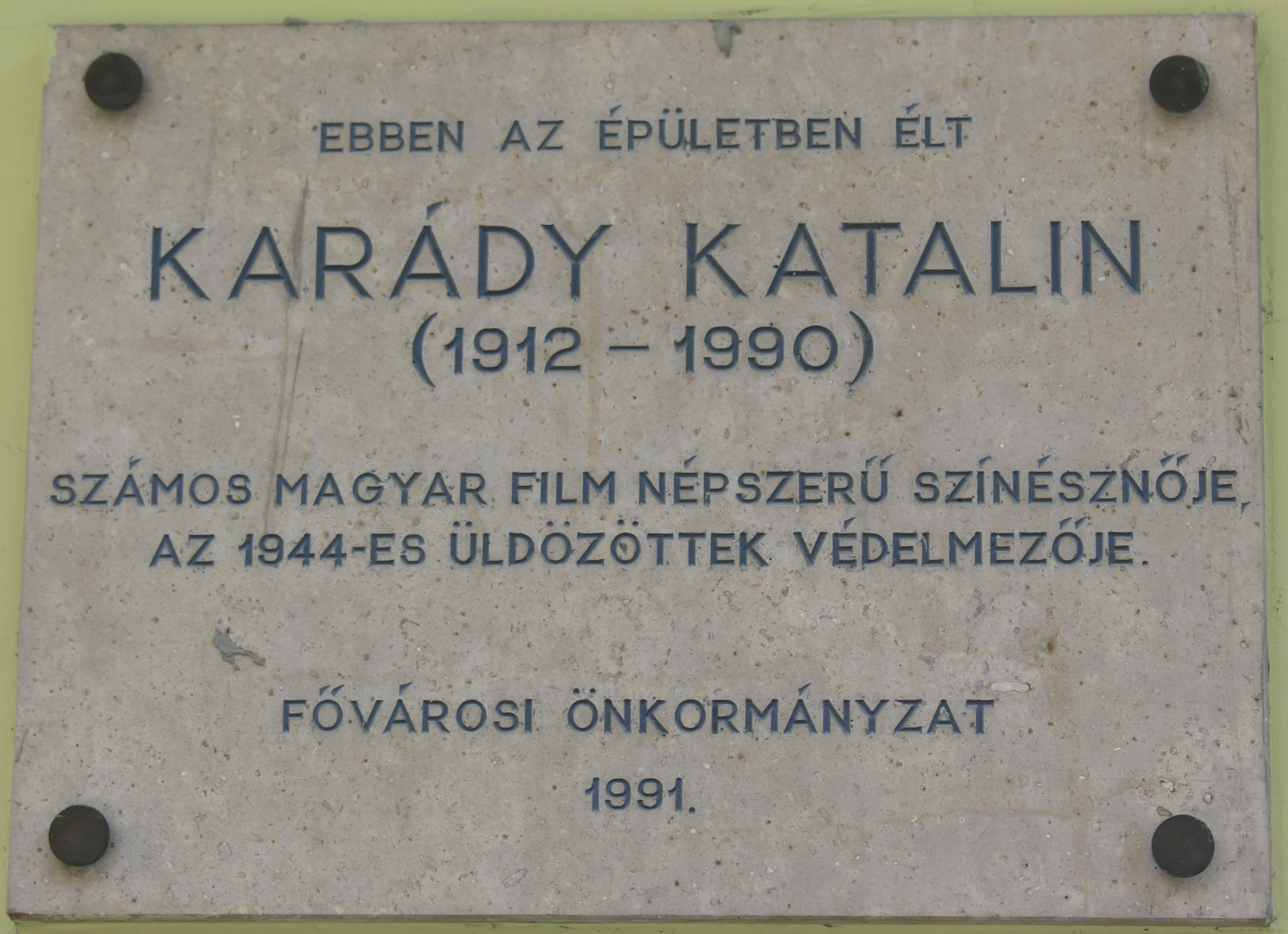 Commemorative plaque of Katalin Karády in Budapest District V, Nyáry Pál Street No 9